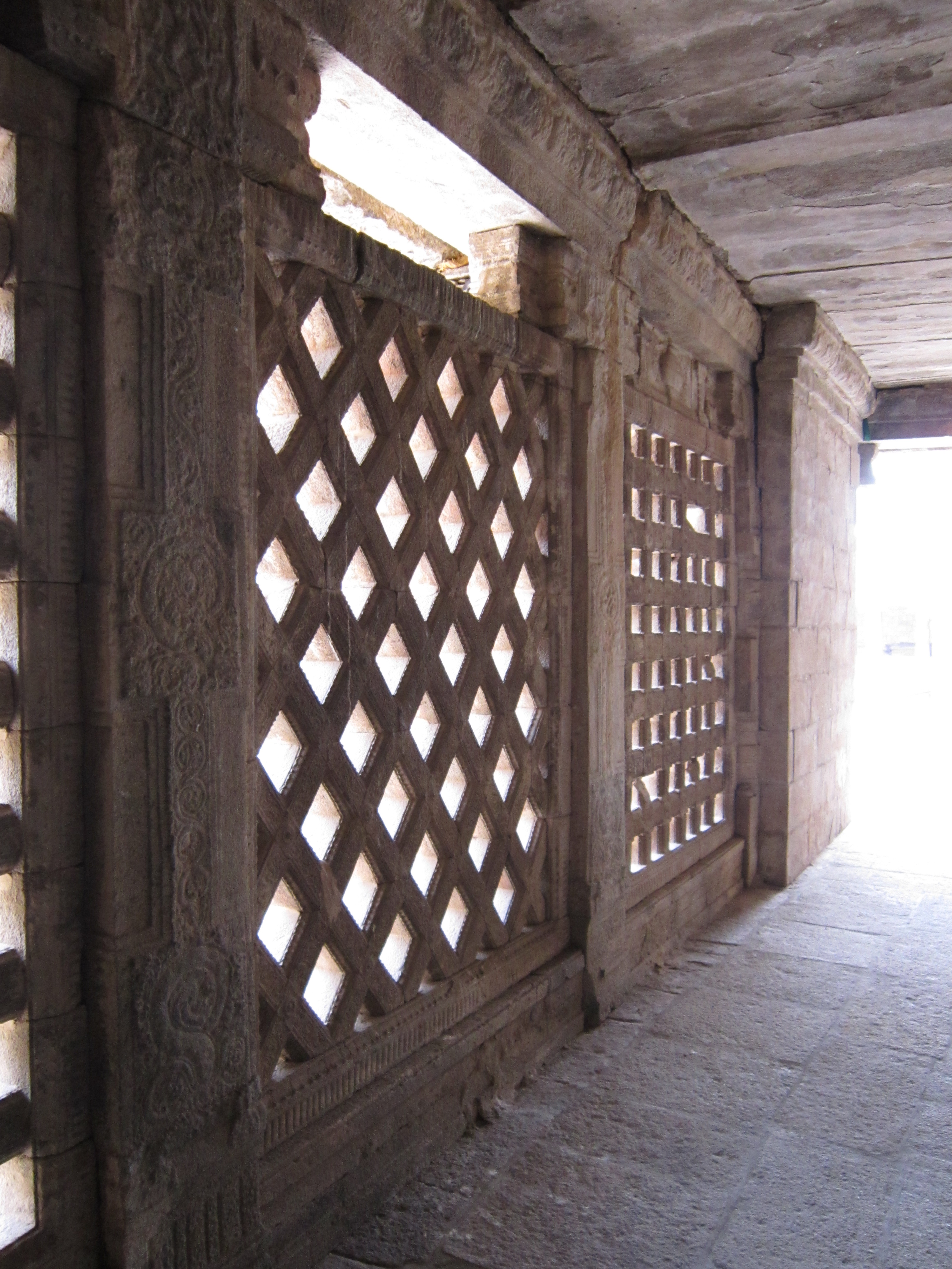 Airavatesvara Temple Beautfiful stone windows